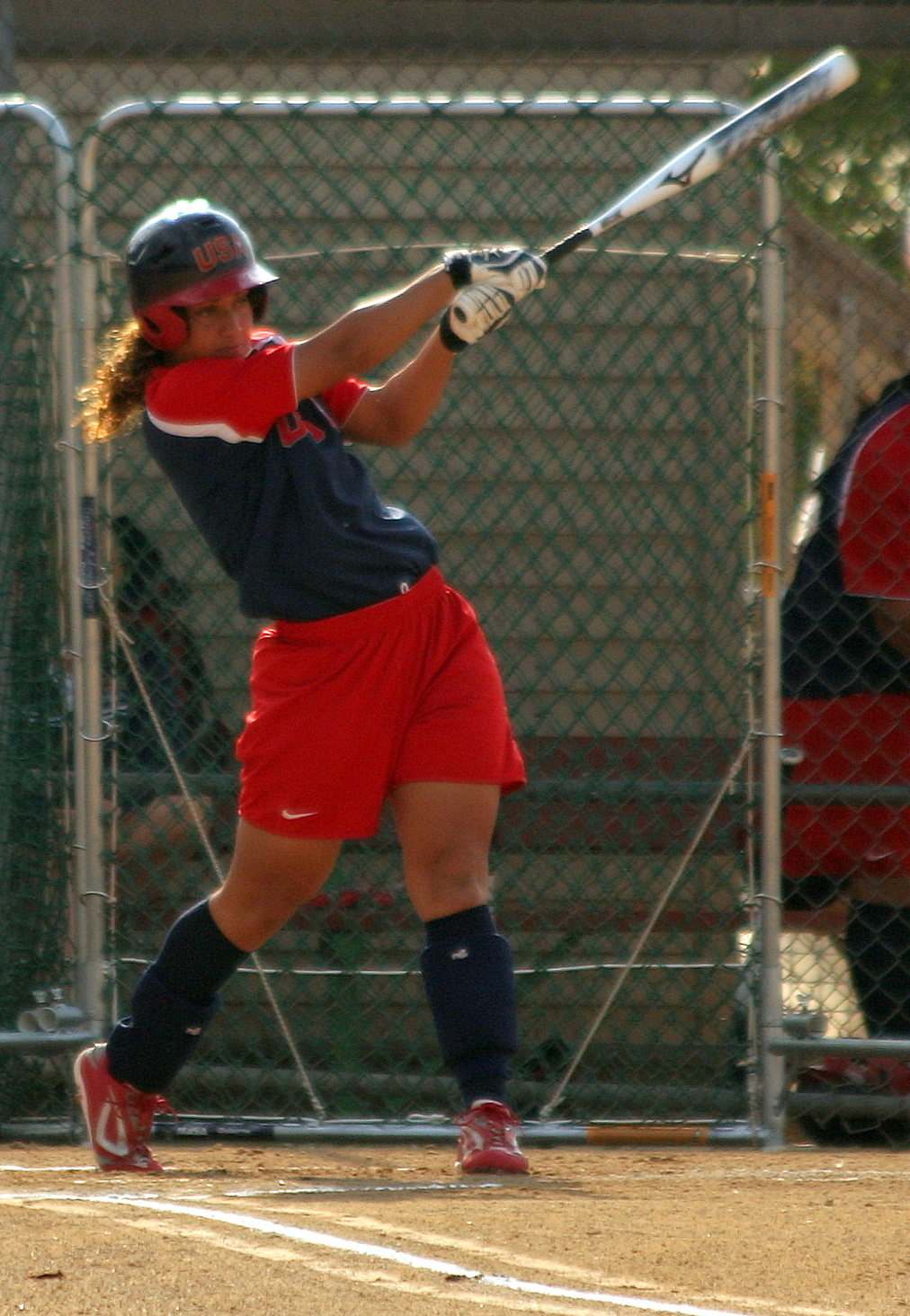 Tairia Flowers plays several positions and is an Awesome batter. In World Cup, Pan Am and Canadian Cup competition she went 19 for 35. That's a .543 average. Eat your heart out Ted Williams and Babe Ruth! She is also a good sport. She clowned around with all the young adoring girls while signing autographs. I got two.